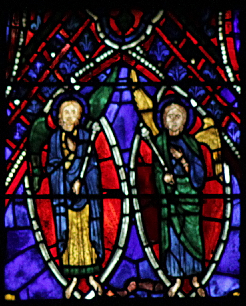 Fragment of File:Chartres 36 -Corrected.jpg - Row 10 : Celestial Hierarchy VII - Thrones.